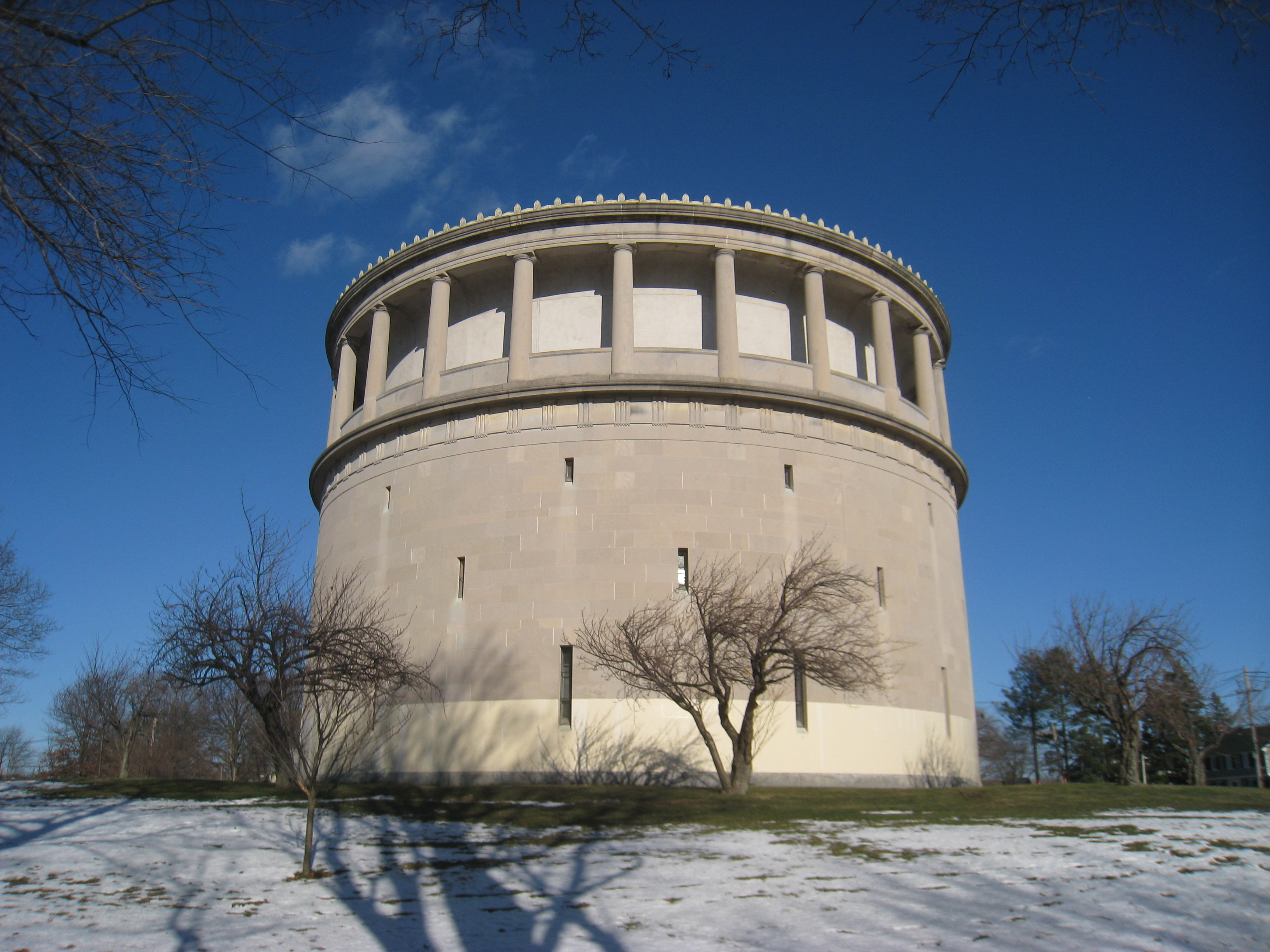 Arlington Reservoir, Park Circle, Arlington, Massachusetts, USA. Building listed on the National Register of Historic Places.